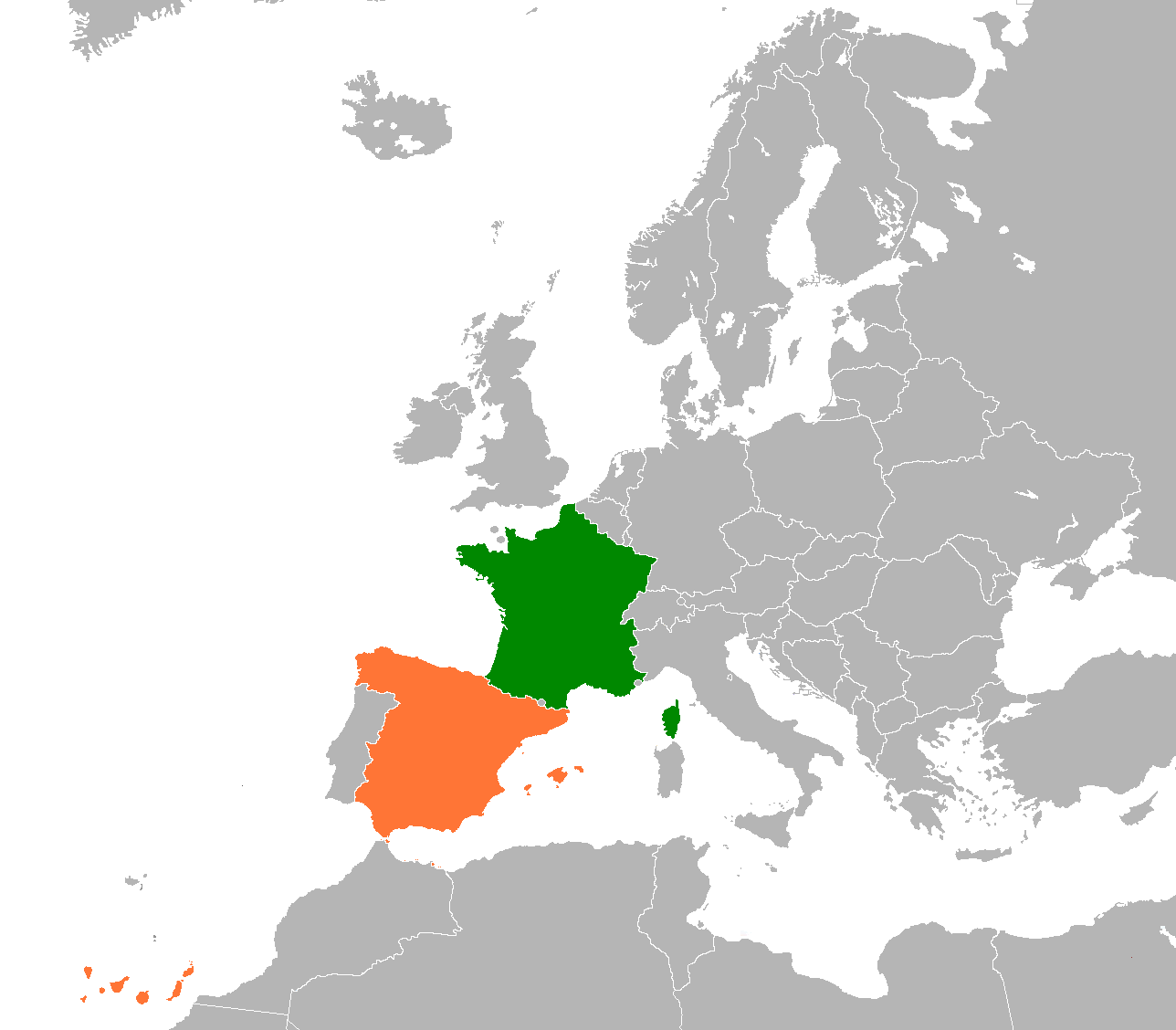 Locator map of France and Spain